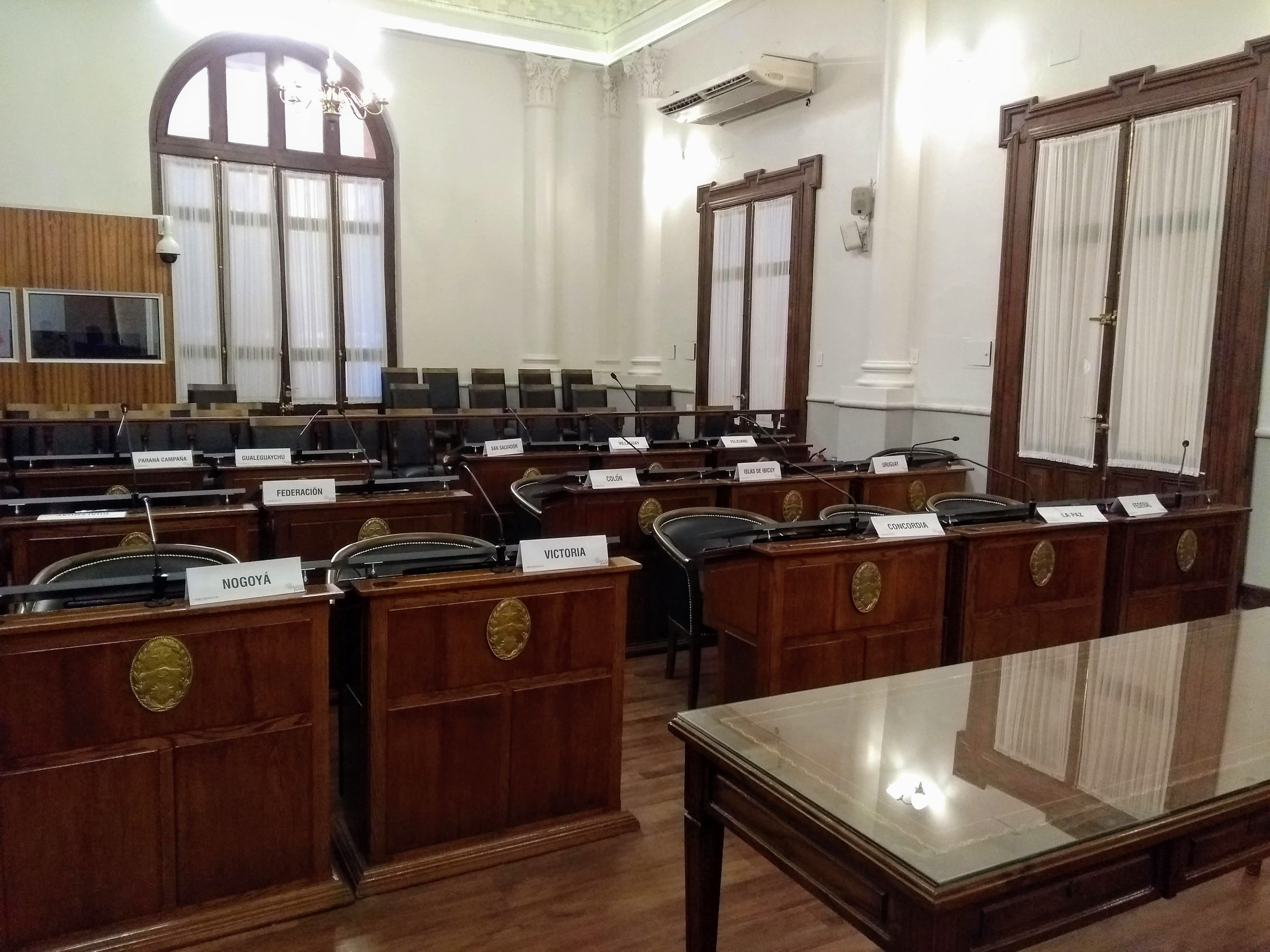 Enclosure of the Senate of the Province of Entre Ríos, Argentina.